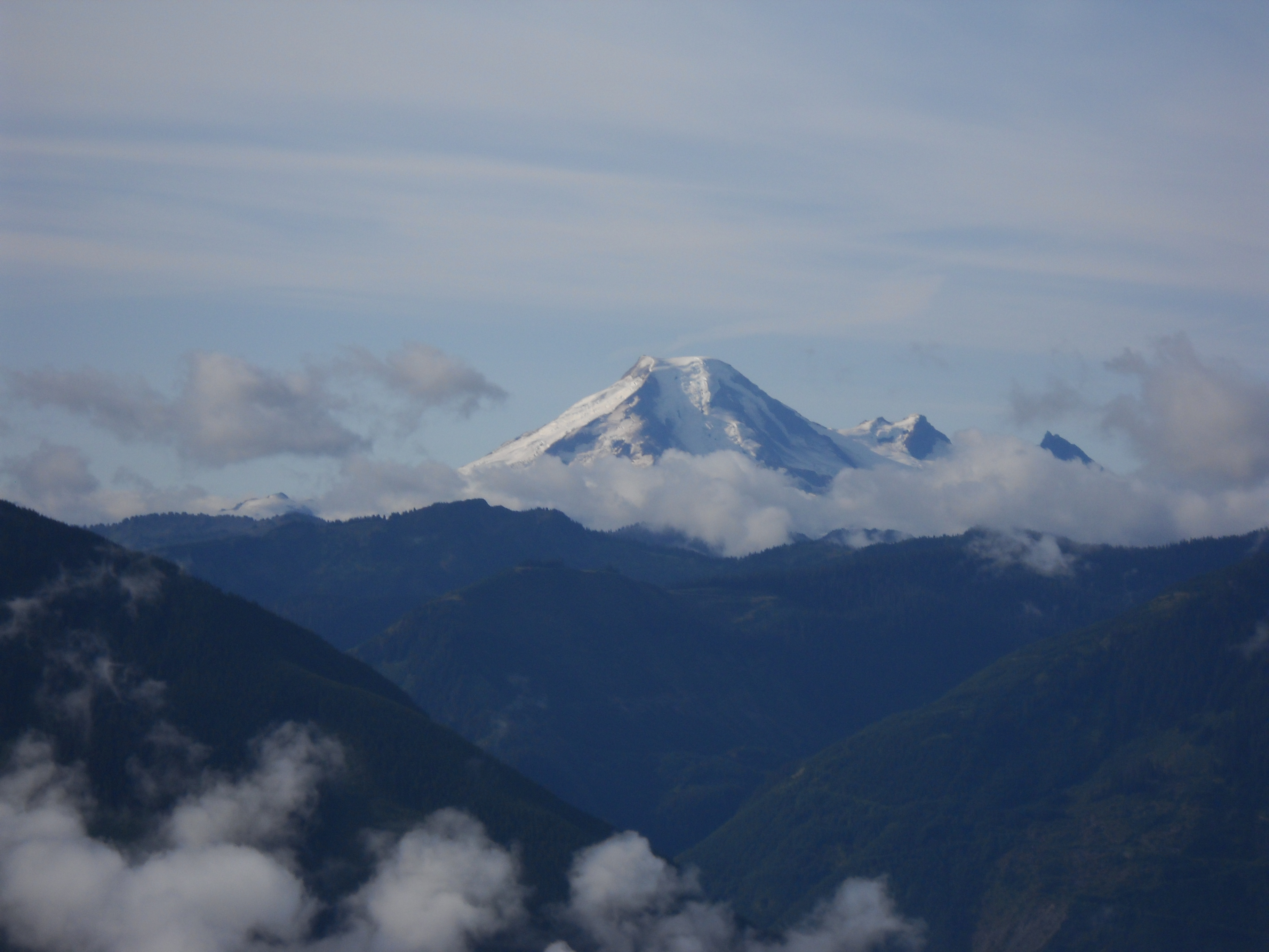 Mount Baker viewed from Elk Mountain (British Columbia).